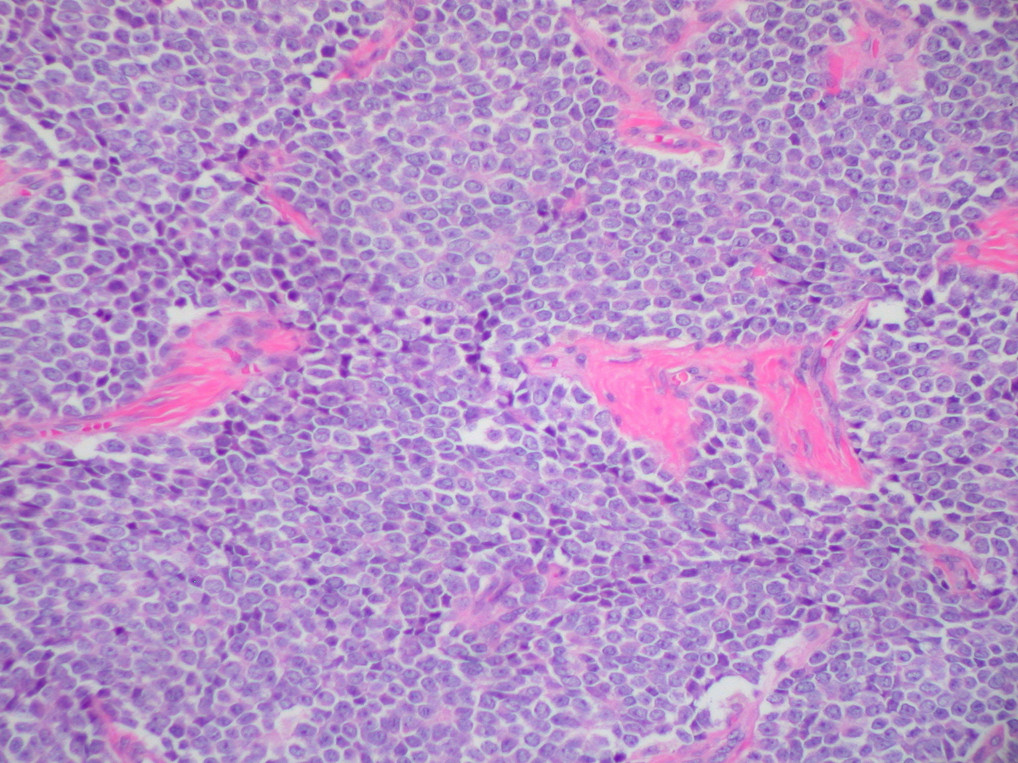 Ewing Sarcoma